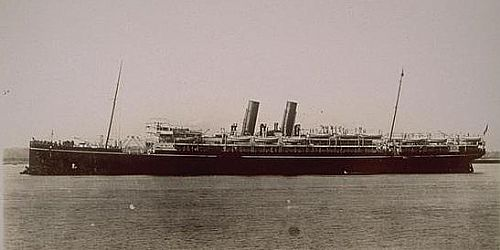 Image of the RMS Moldavia prior to its sinking in 1918.